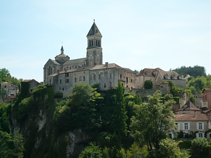 Church of Albas, Lot, France